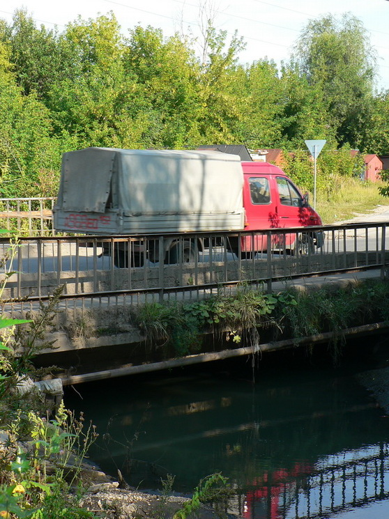 The Bridge over Kova in Vysokovo district